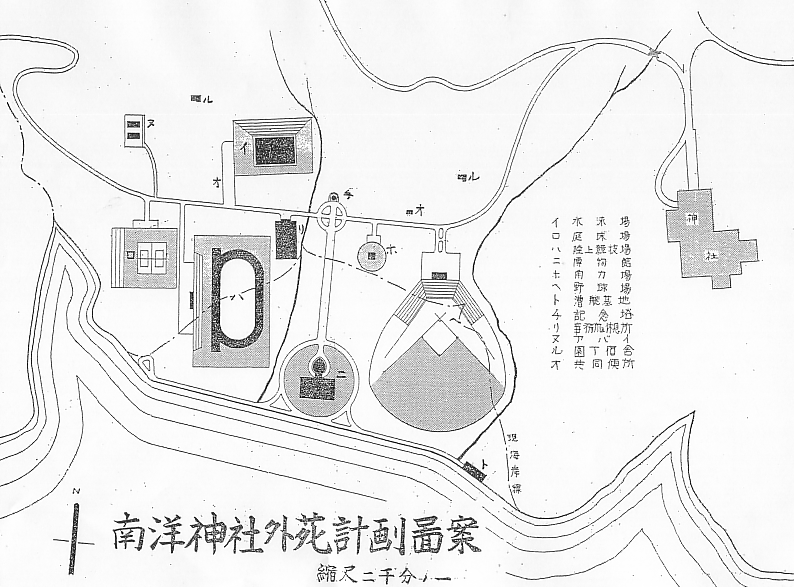 Nan'yo Jinja Gaien Plan